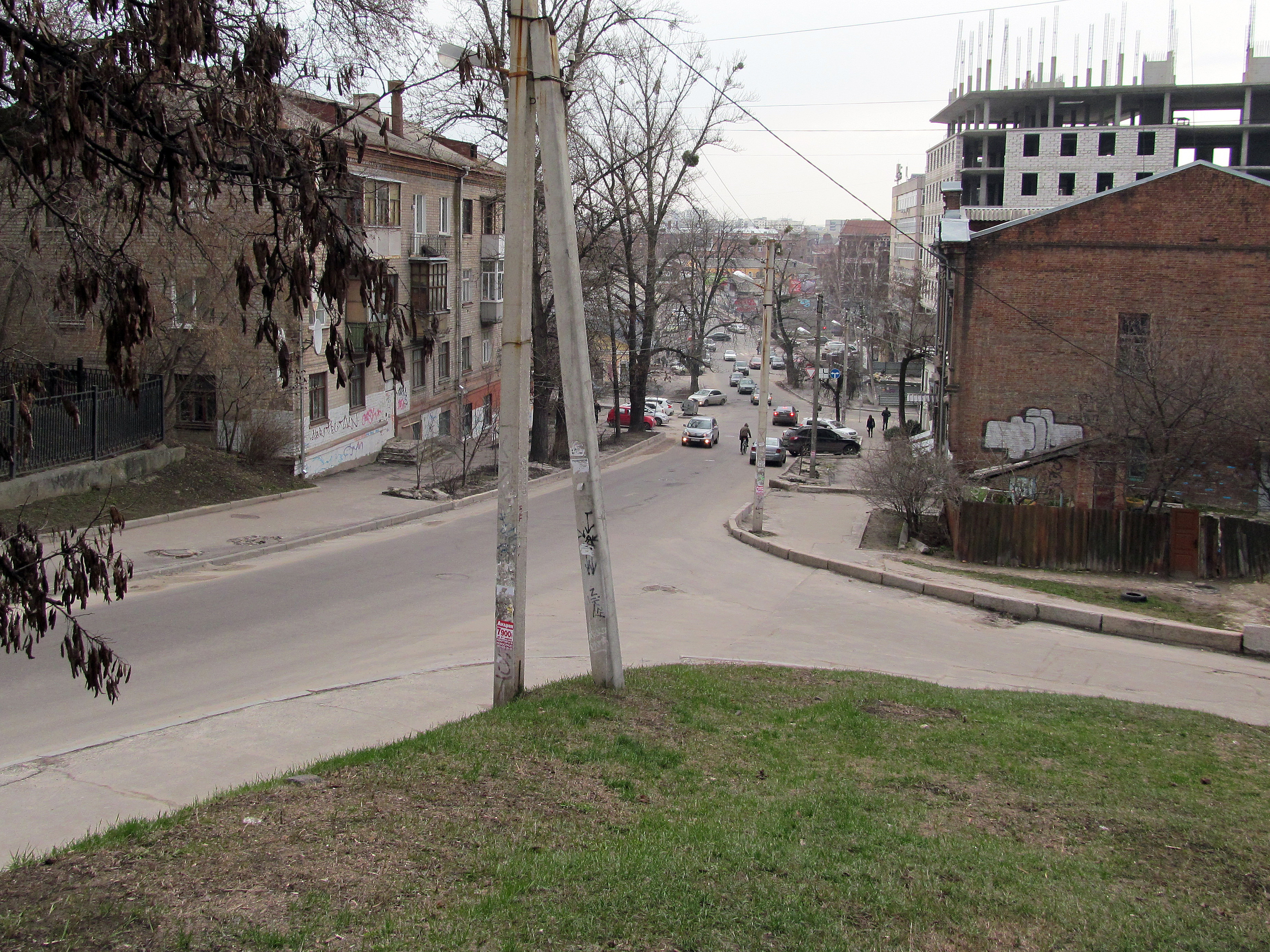 Marshala Bazhanova street, Kharkiv, Ukraine. The end of the street.